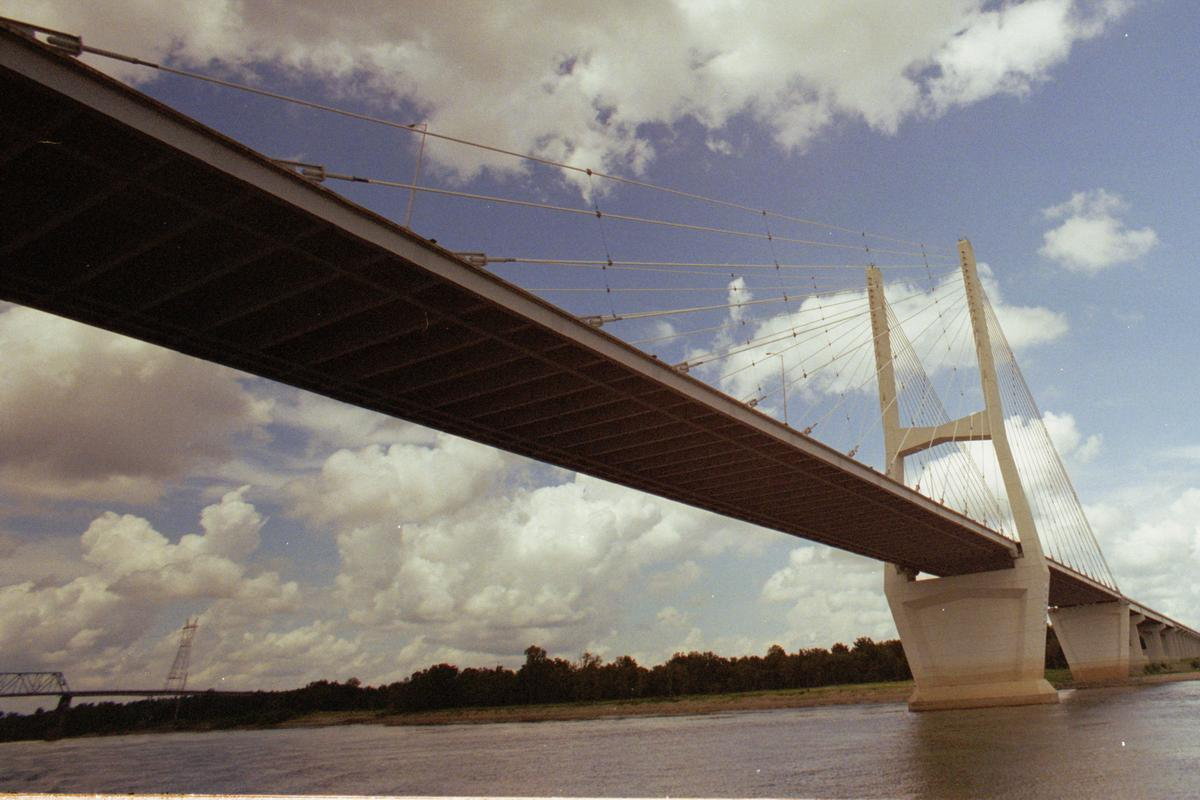 The Greenville Bridge is a cable-stayed bridge crossing the Mississippi River, that carries US 82 and US 278, between Lake Village, Arkansas and Greenville, Mississippi Original description:New Cable Stayed bridge between Greenville, Mississippi and Lake Village, Arkansas. Taken with an Olympus OM2s with 18mm lens.